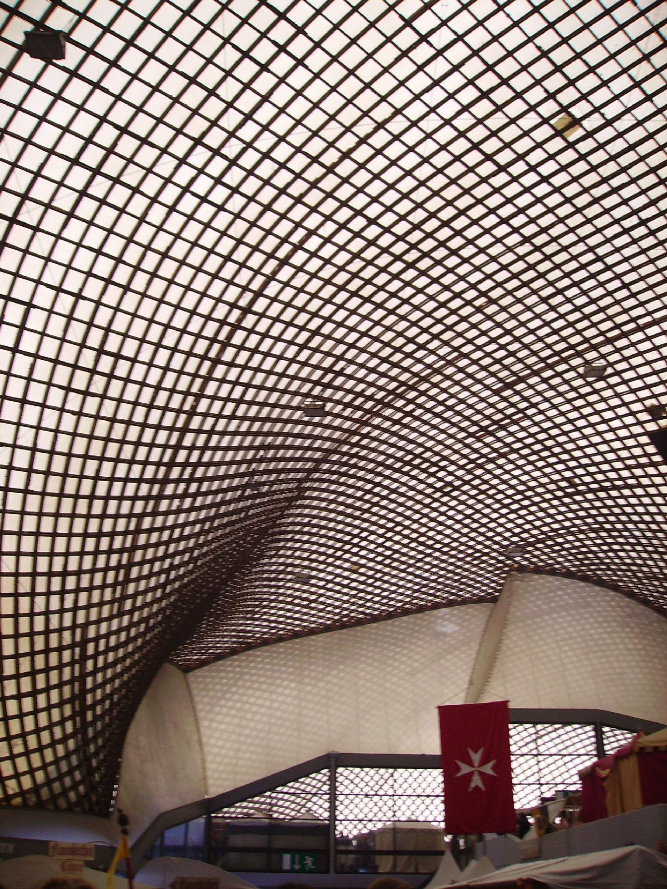 public park "Herzogenriedpark" in Mannheim, Germany